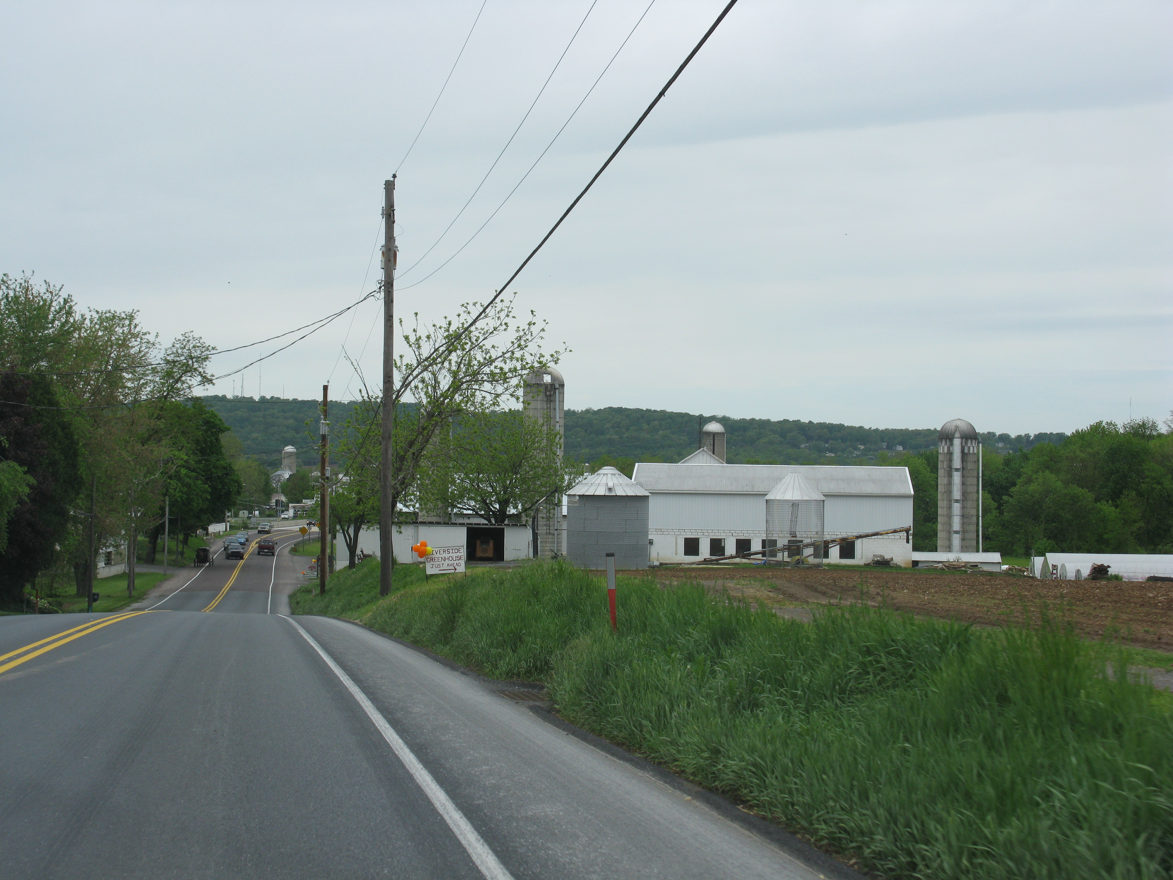 US 322 approaching Martindale Road, Hinkletown, Pennsylvania